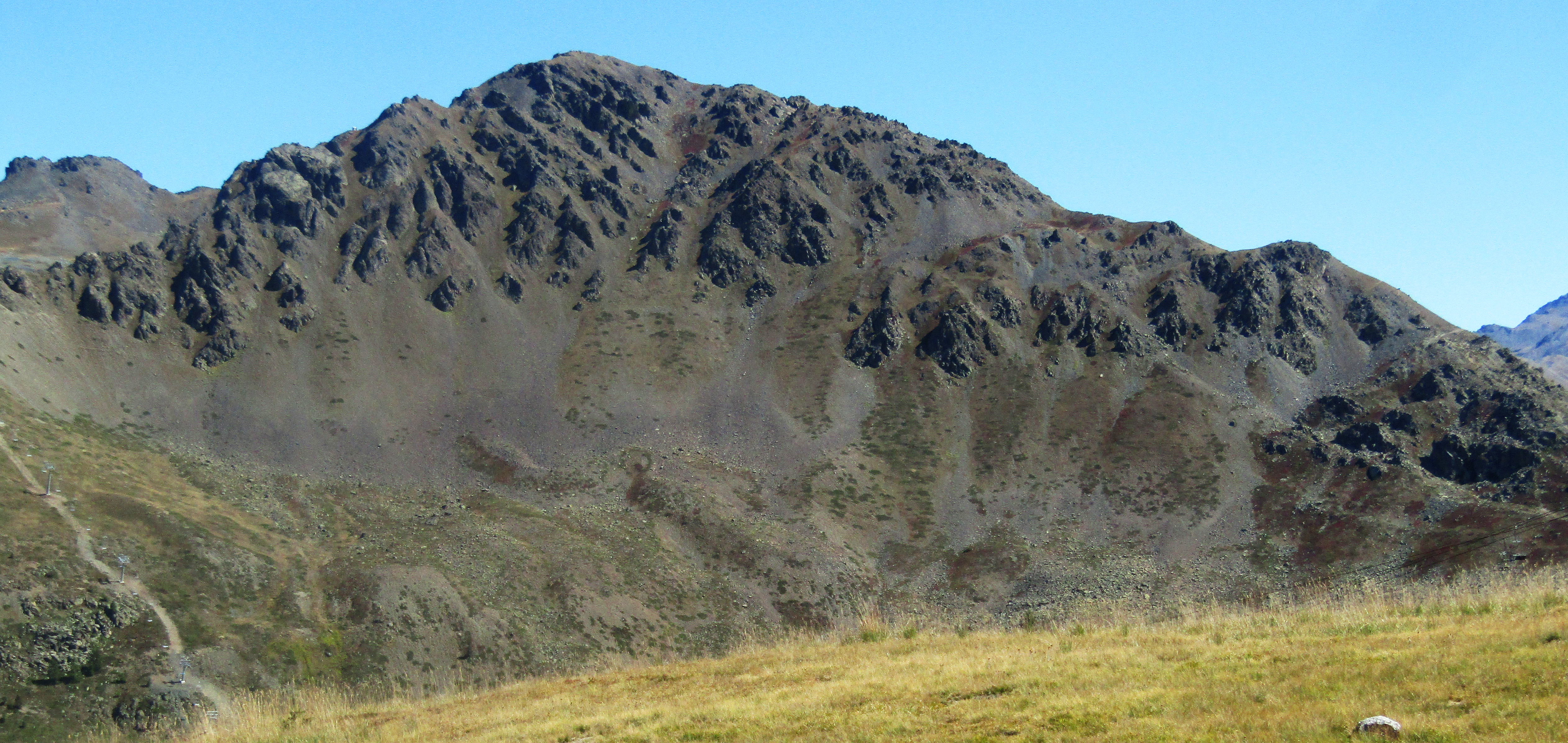 Mount Chenaillet (Cottian Alps, France): West face, on its left Mount Gimont